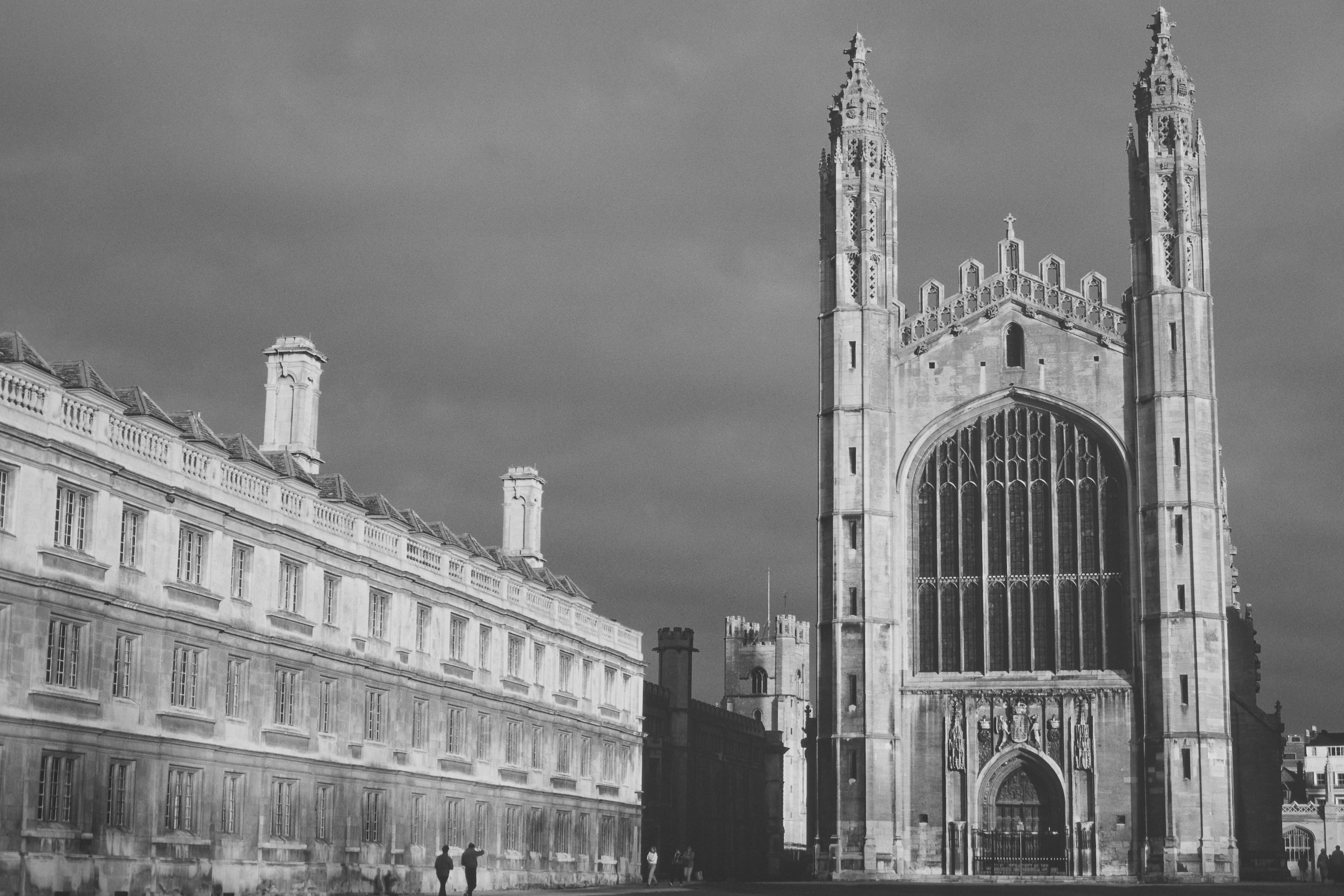 The Chapel and Gibbs' Building of King's College in Cambridge, England, UK